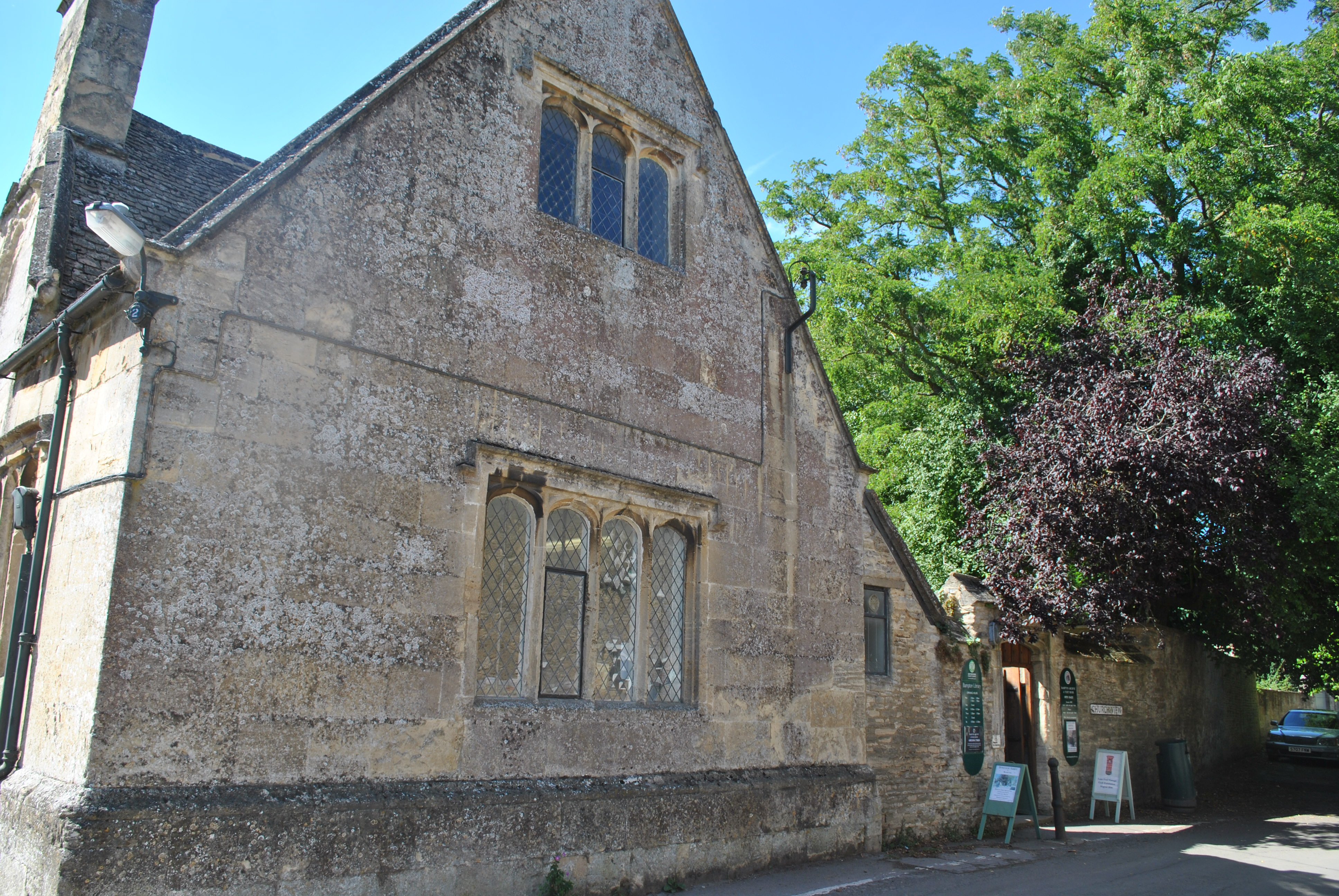 The public library, Bampton, Oxfordshire. Originally the free school.